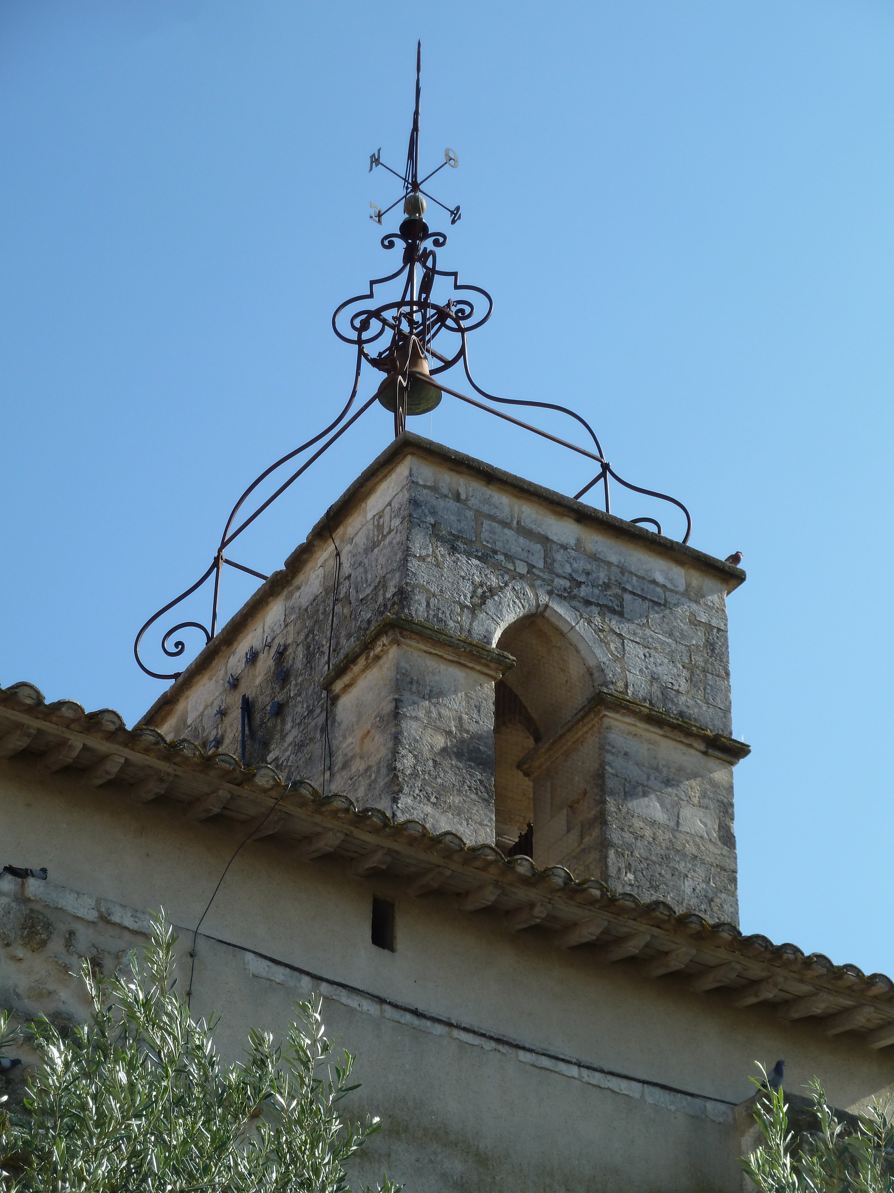 Church of Saint-Jean-Baptiste in Castelnau-le-Lez (vicinity of Montpellier, France). Belltower viewed from the north side of the church.